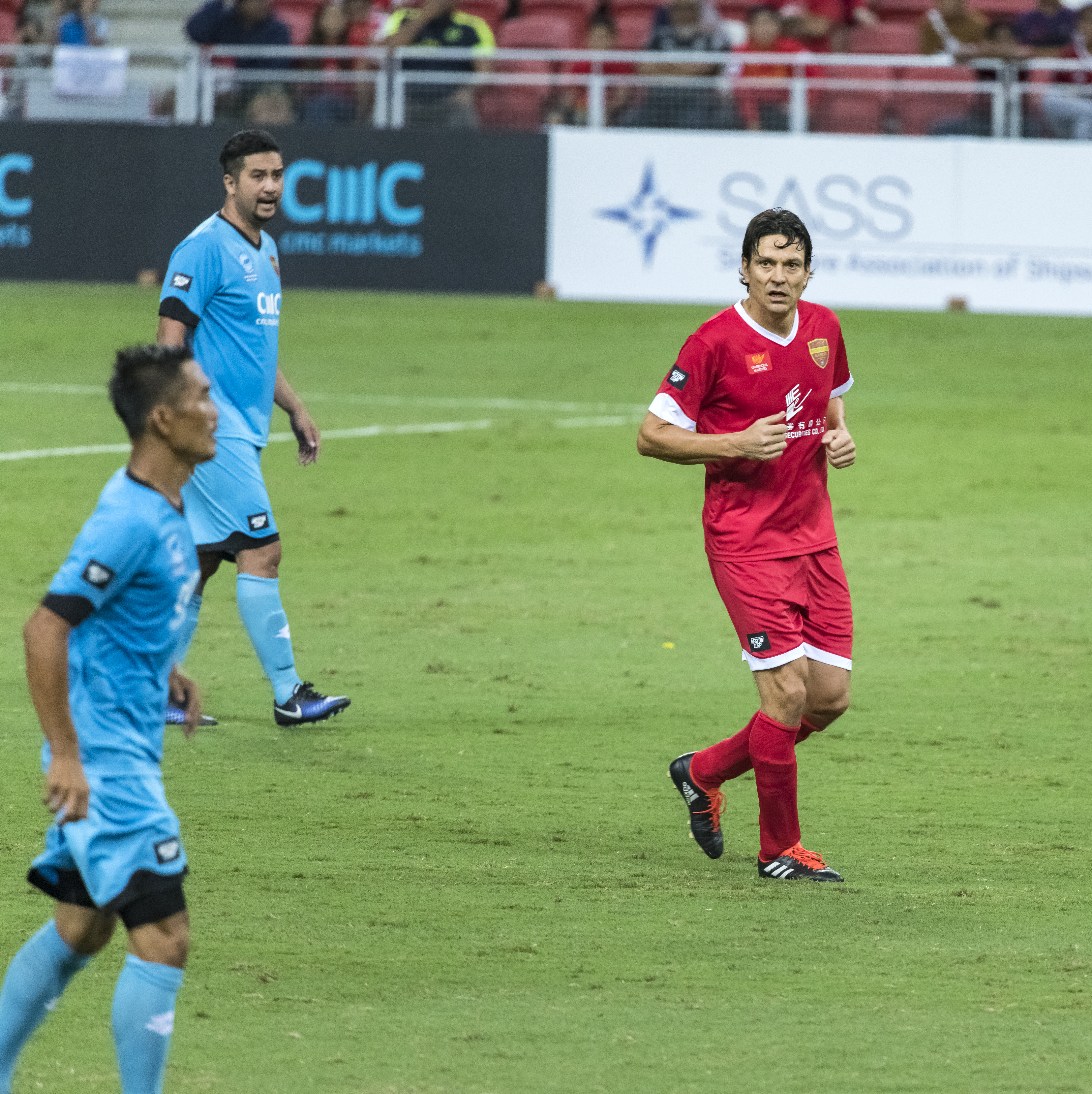 jari litmanen liverpool masters singapore national stadium 2017 aide iskandar nazri nasir